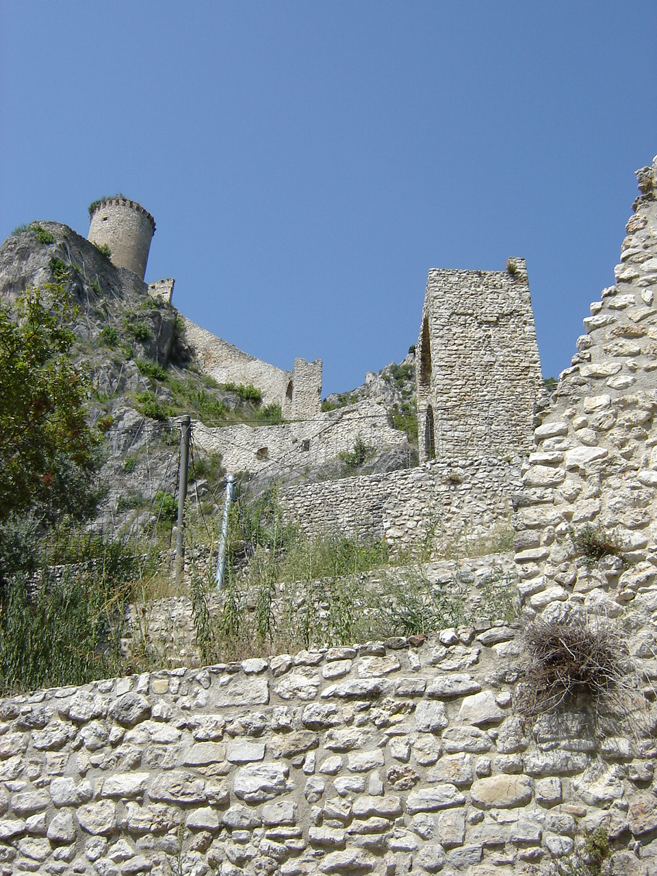 Towers and wall of the historic town of Rocca San Zenone, Terni, Italy